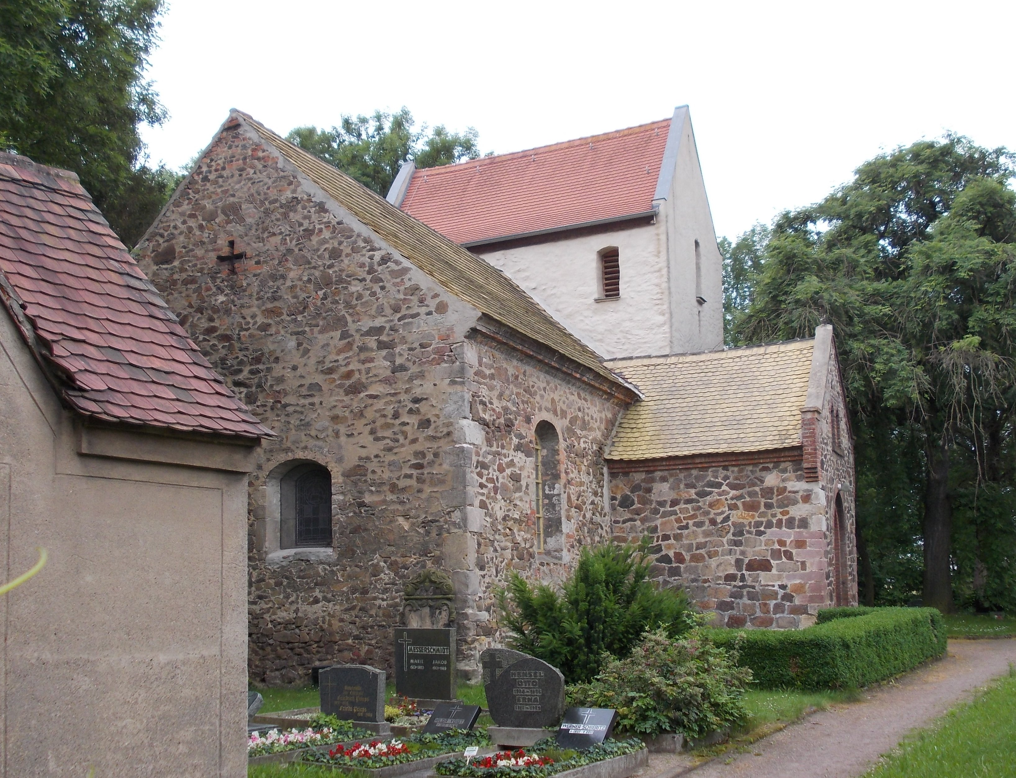 St. Nicholas Church in Spickendorf (Landsberg, district: Saalekreis, Saxony-Anhalt)